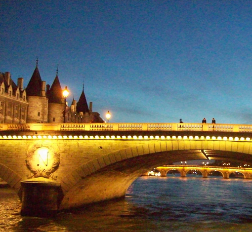 Pont au Change - Seine, Paris.